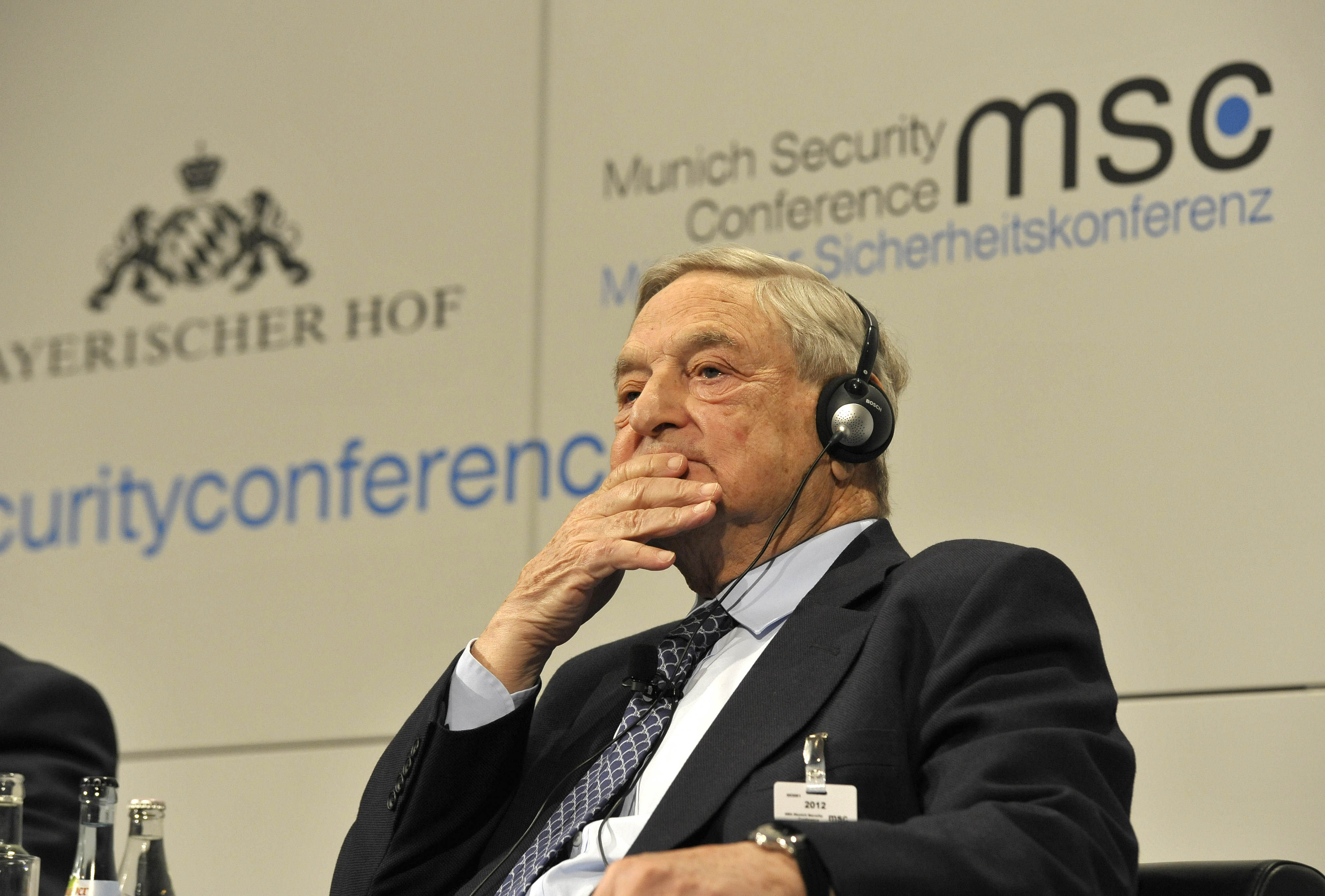 48th Munich Security Conference 2012: George Soros, Chairman, Soros Fund Management.